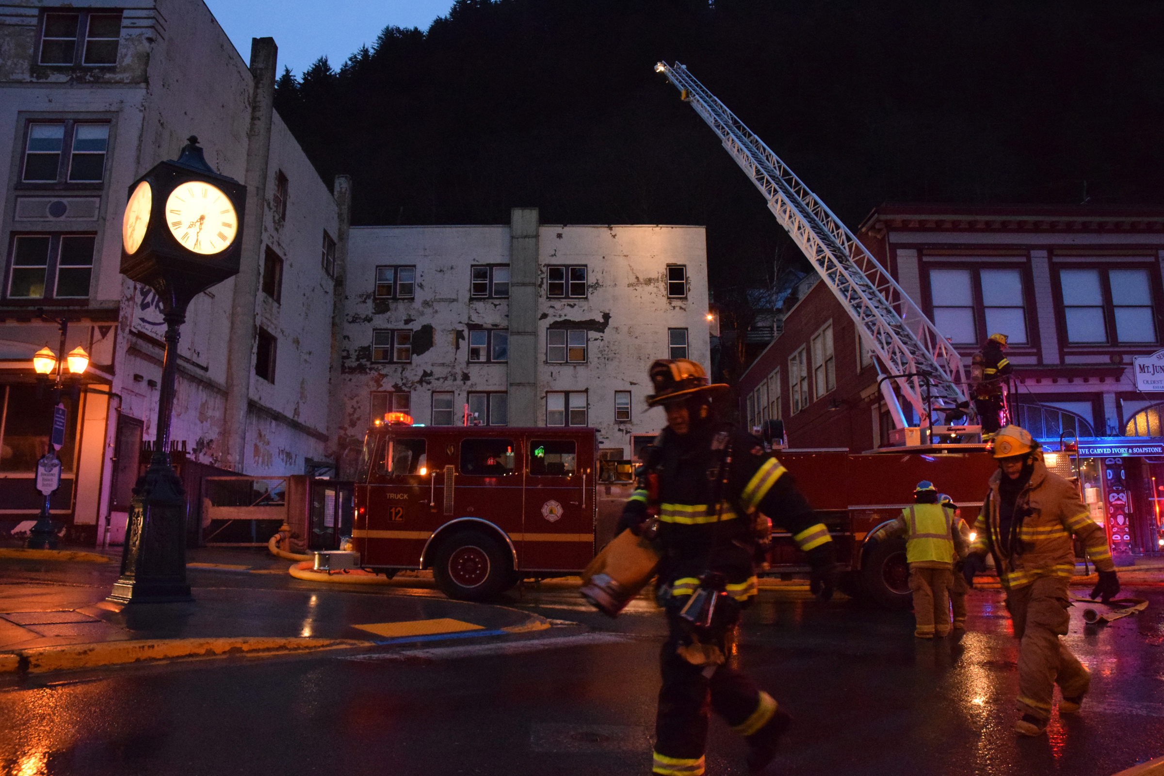 A Capital City Fire/Rescue ladder truck focuses its spotlight on the third floor of the Gastineau Apartments in downtown Juneau, Alaska shortly after 7:30 p.m. Saturday, March 21, 2015. According to the city fire marshal, squatters in the abandoned building started the fire.